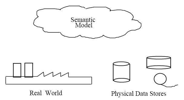 Figure A2 4 Semantic Data Models